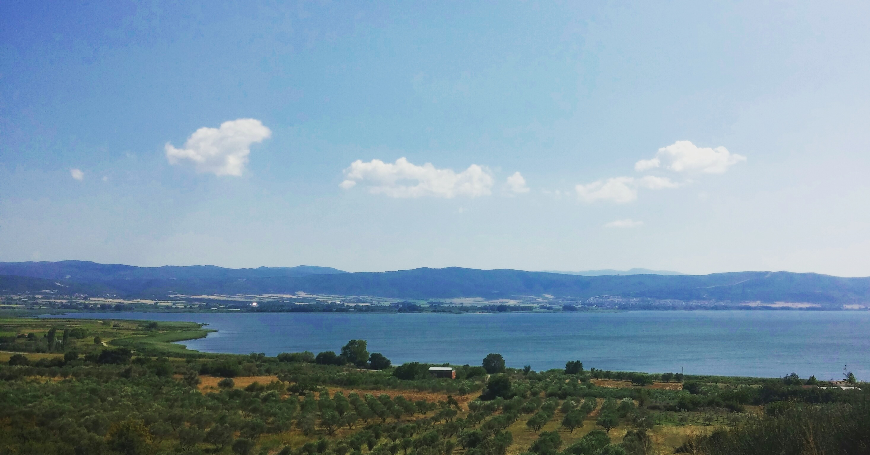 Lake Volvi in 2016